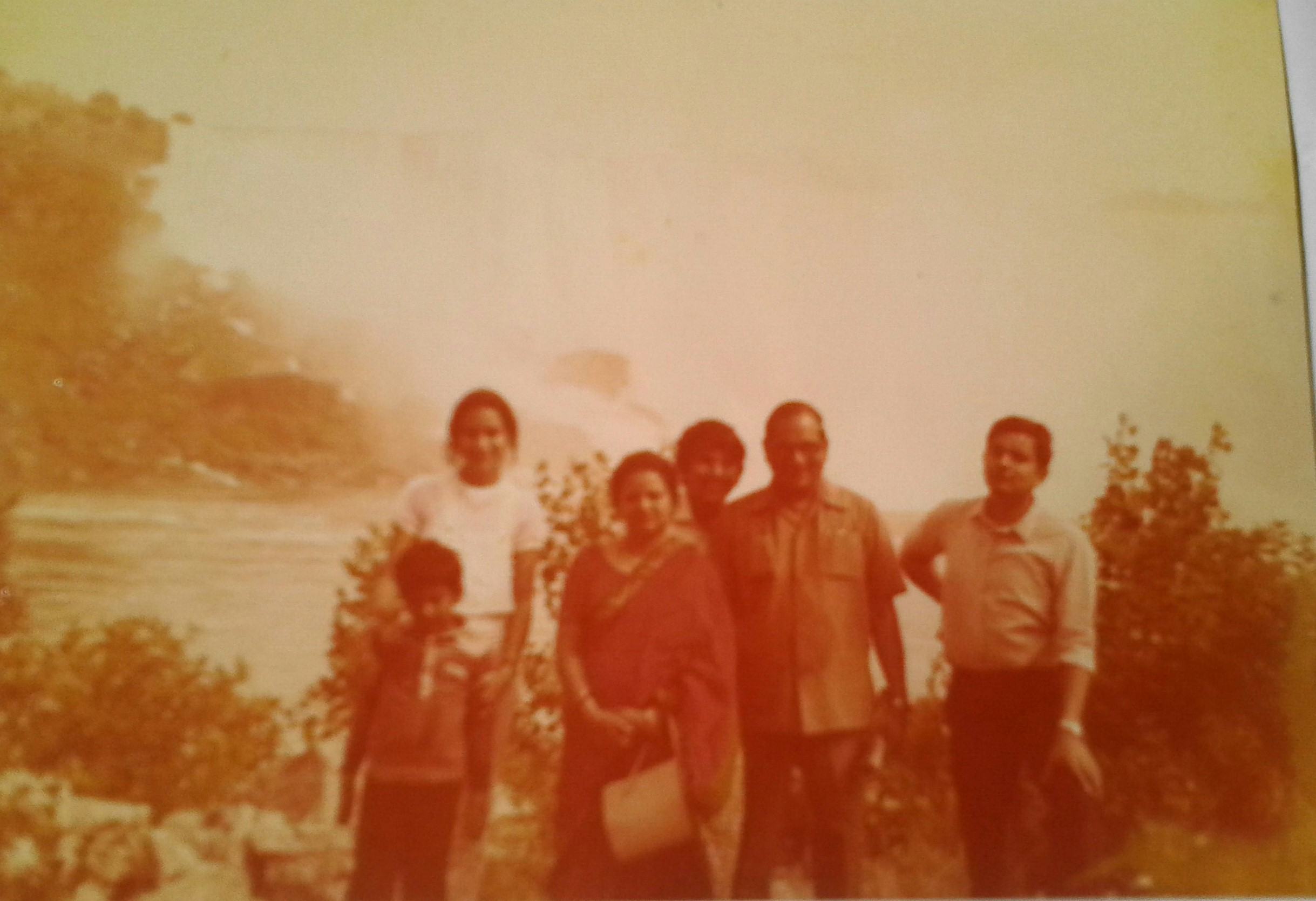 This photo shows the whole family members of Dr. I P Singh.